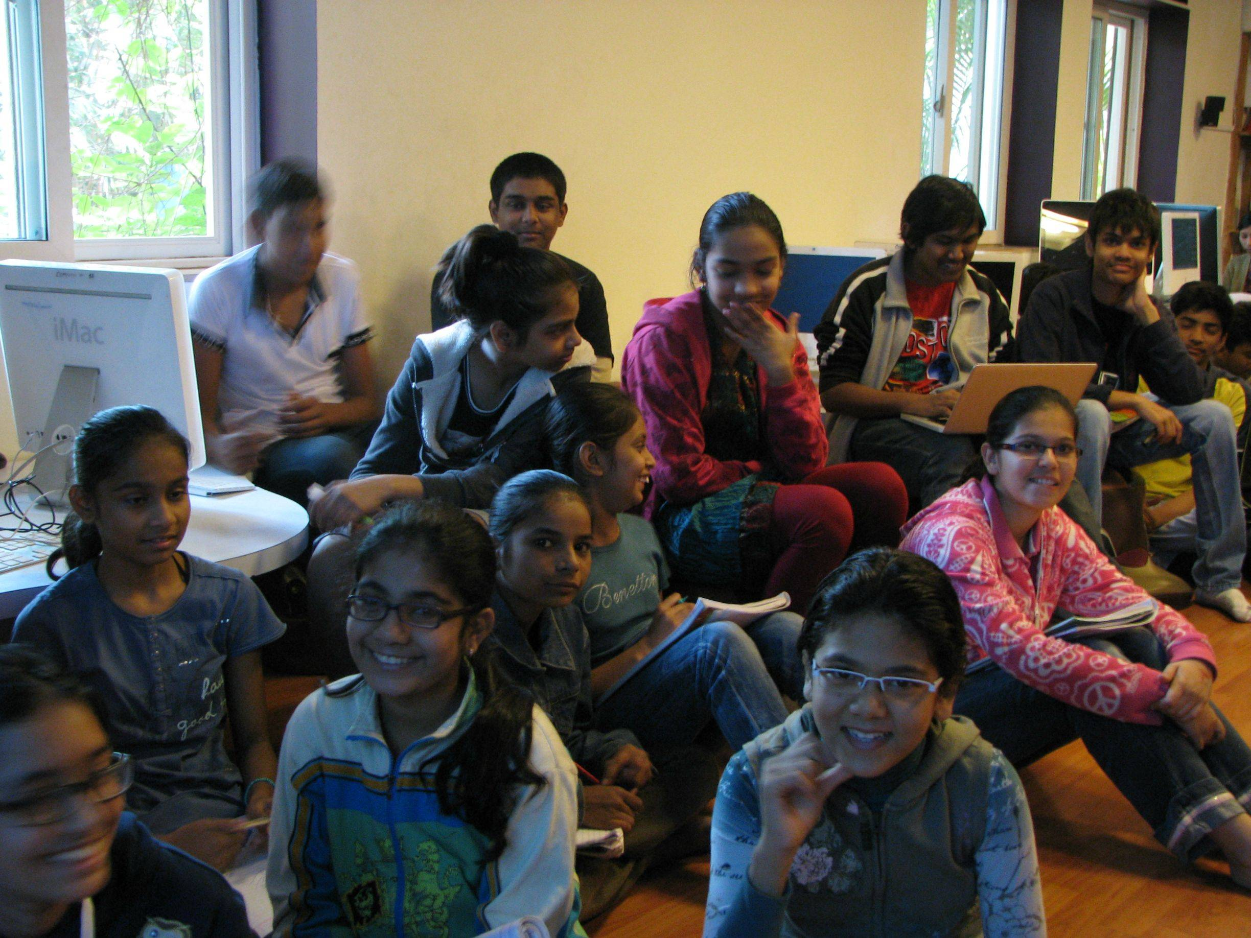 Picture of students at Mahatma Gandhi International School, Ahmedabad